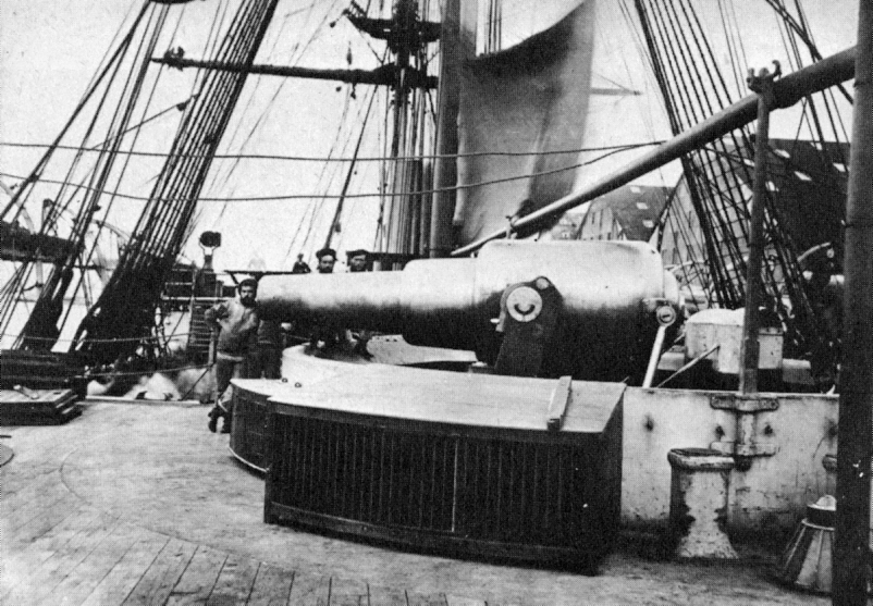 Photograph of one of the British ironclad battleship HMS Temeraire's 11-inch (279 mm) 25-ton rifled muzzle-loading guns in the raised, or firing, position.